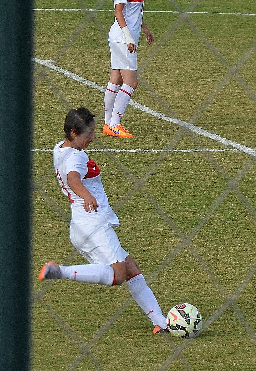 Derya Arhan playing for Turkey Women's U17 against Ireland on October 20, 2015